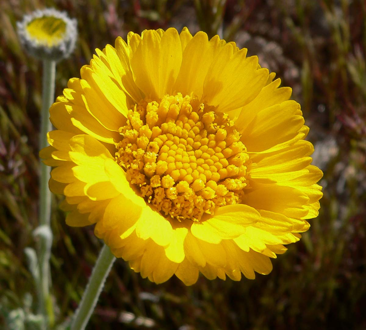 Photo of Baileya multiradiata (desert marigold) in Red Rock Canyon, Nevada